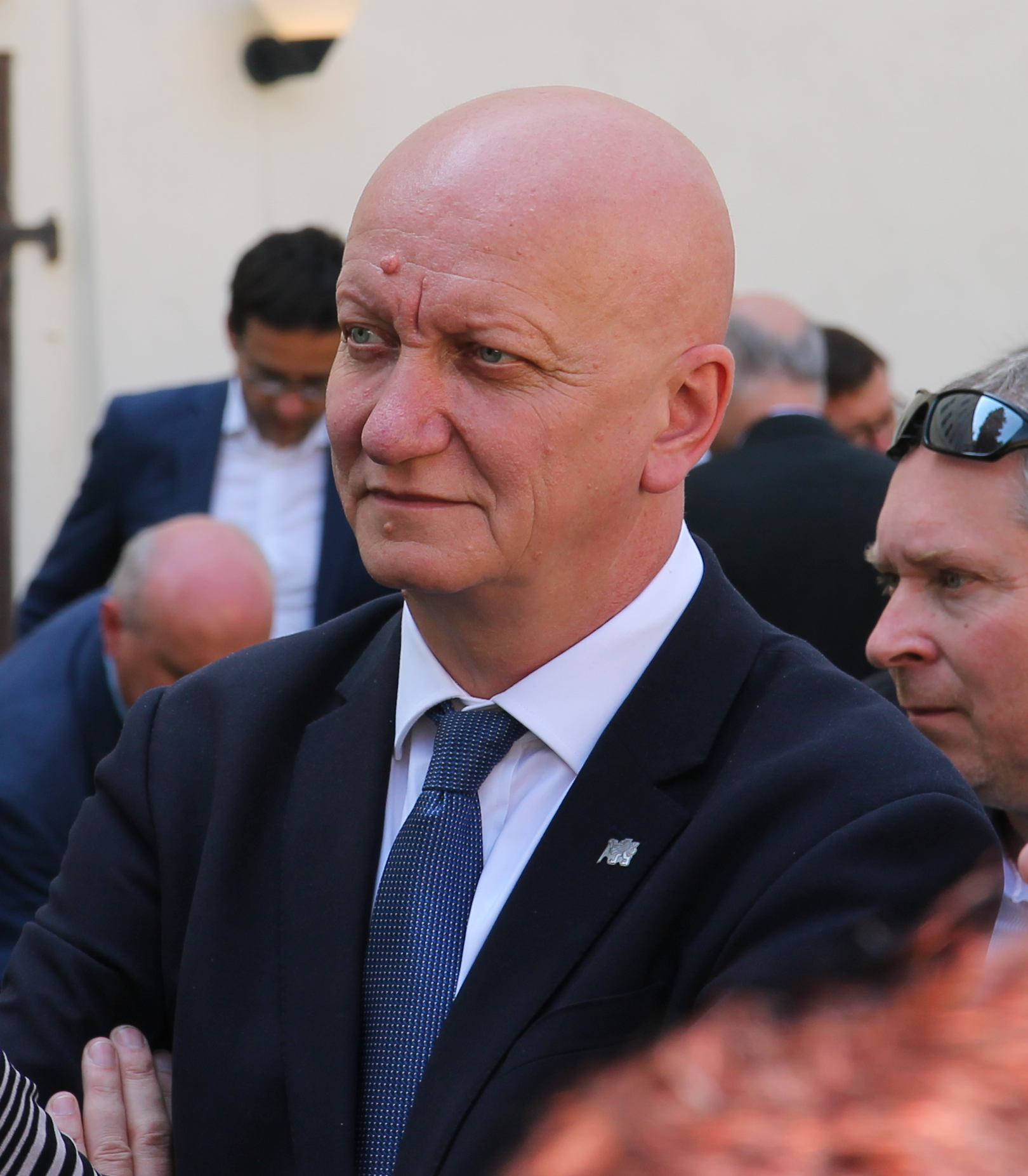 Vojtěch Petráček during the episcopal ordination of Zdenek Wasserbauer held on May 19th, 2018, Prague